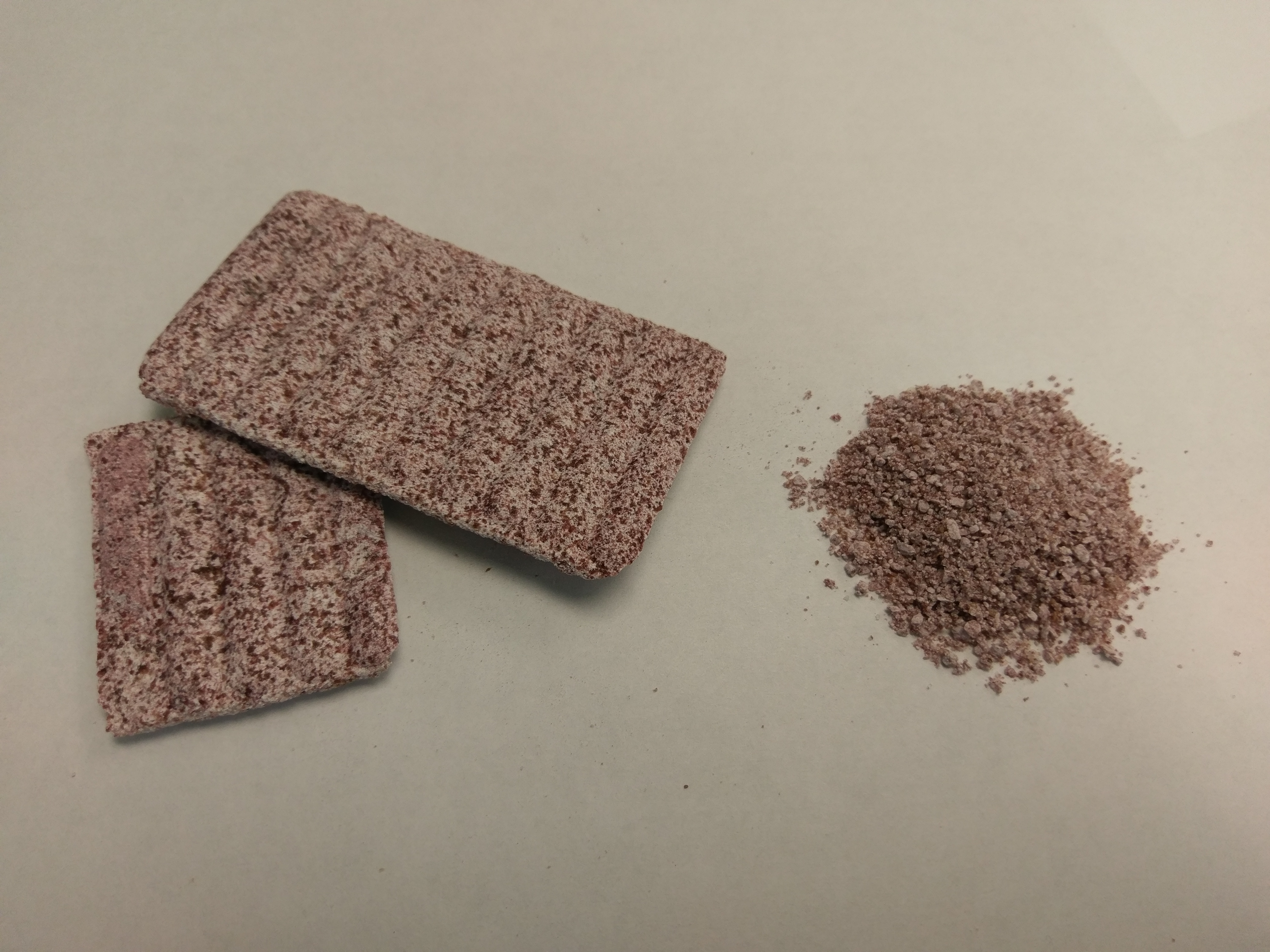 Samples of roller compacted sheets and powder.